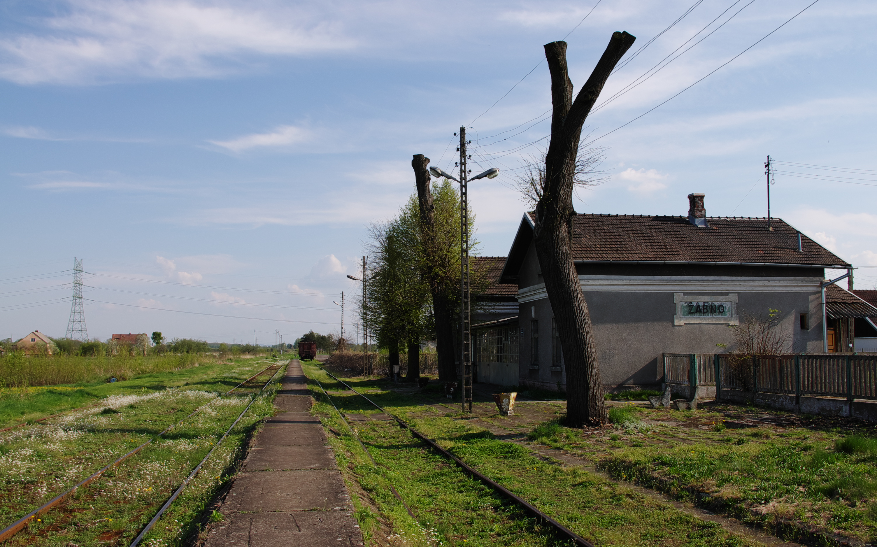 Railway station in Żabno, Poland